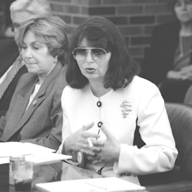 Dr. Huda Akil addressing the Presidential Search Advisory Committee at the University of Michigan in 1996